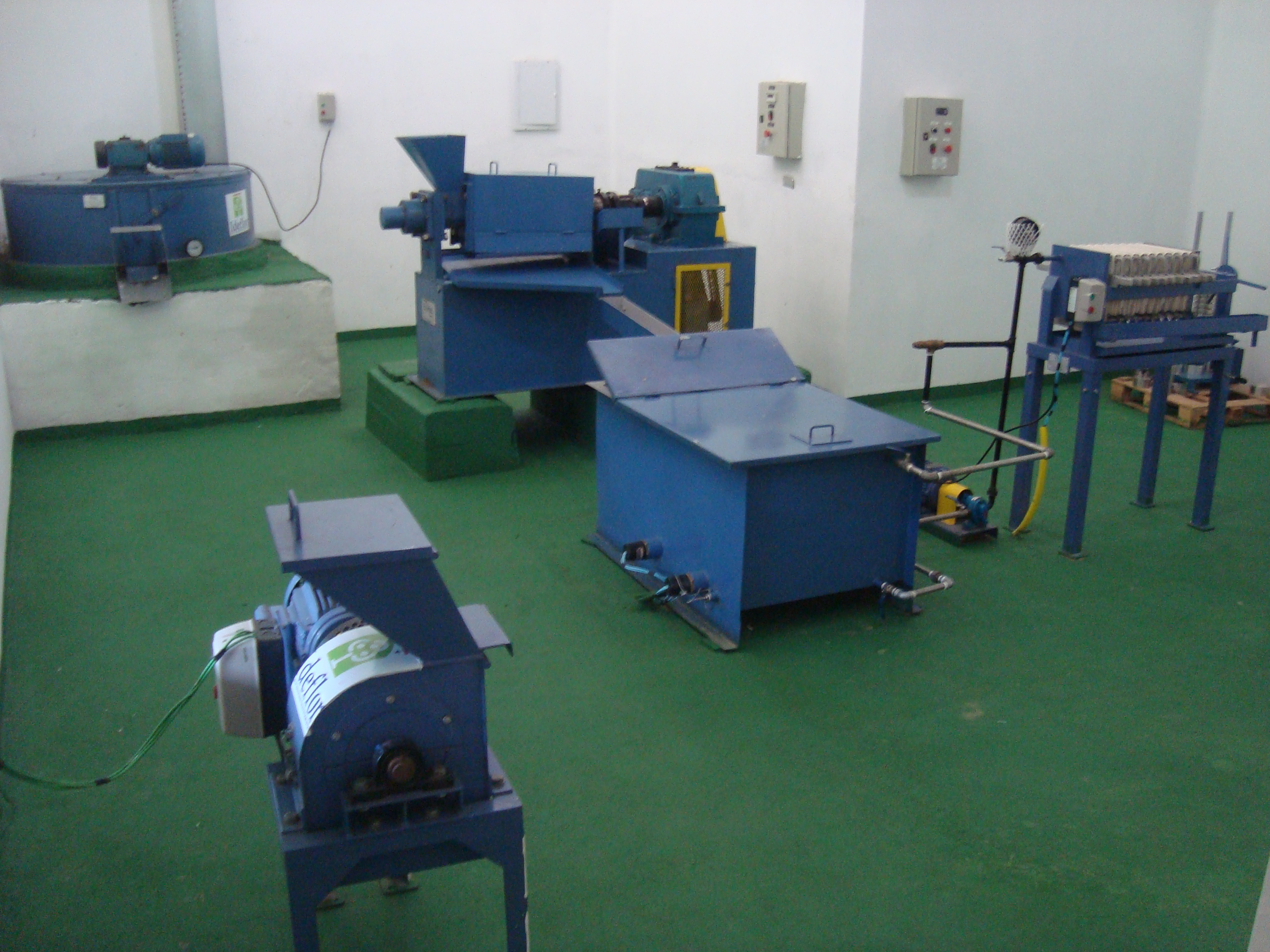 Machines for extracting oil from oil seeds